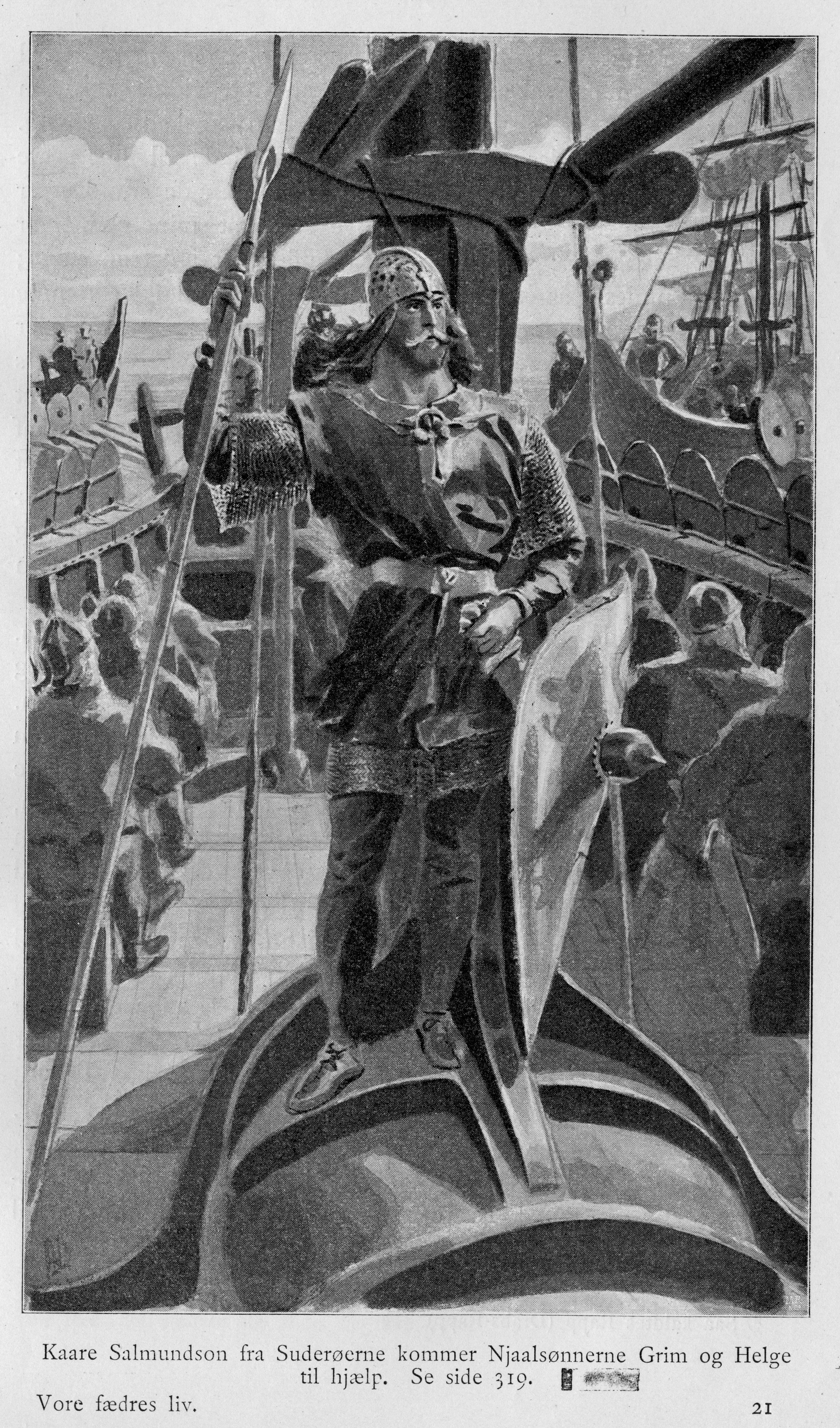 From Njáls saga: Kári Sölmundarson of Suderoerne comes at the help for Njal's sons Grim and Helgi. Illustration from "Vore fædres liv" : karakterer og skildringer fra sagatiden / samlet og udggivet af Nordahl Rolfsen ; oversættelsen ved Gerhard Gran., Kristiania: Stenersen, 1898.